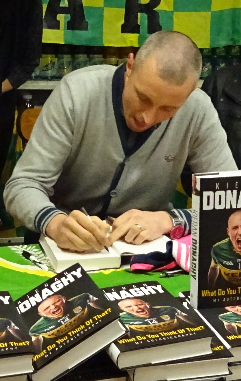 Kieran Donaghy signing his book 'What Do You Think of That', a book that was named the Irish Sports Book of the Year in 2016